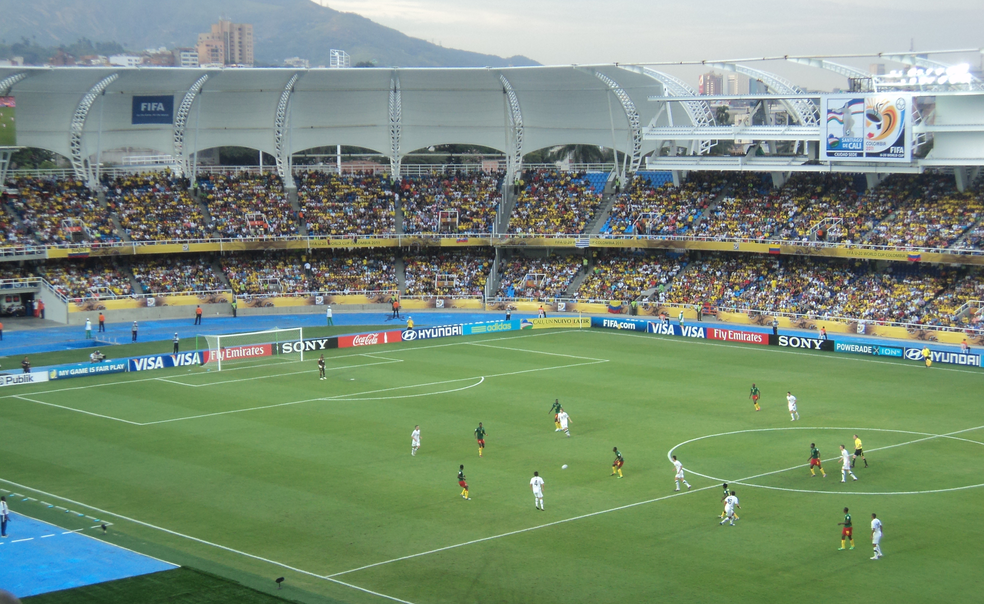 Pascual Guerrero Stadium from Cali, Colombia in the FIFA U-20 World Cup Colombia 2011 - Match: Cameroon Vs New Zealand